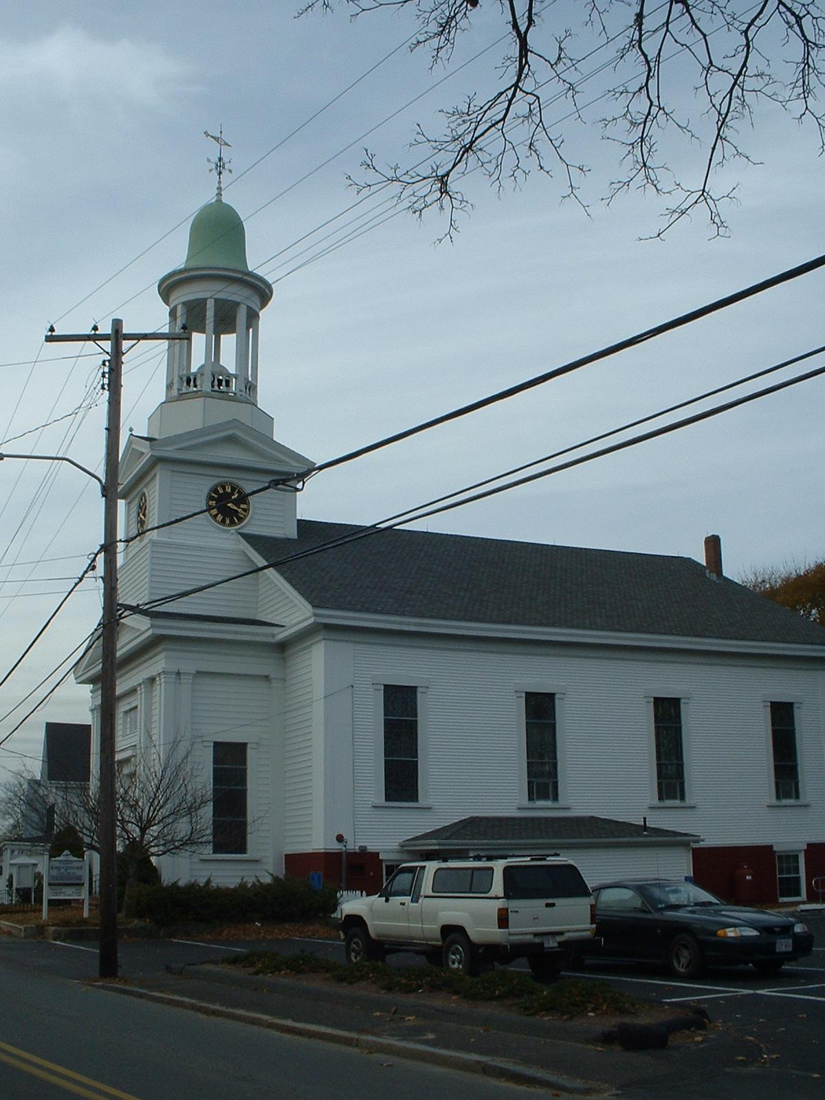 The First Congregational Church of Wellfleet, Massachusetts. Built in 1850, the church's tower is referred to as the Town Clock, as it is equipped with a ship's bell striking system. (Reference: Wellfleet Congregational Church Website.)